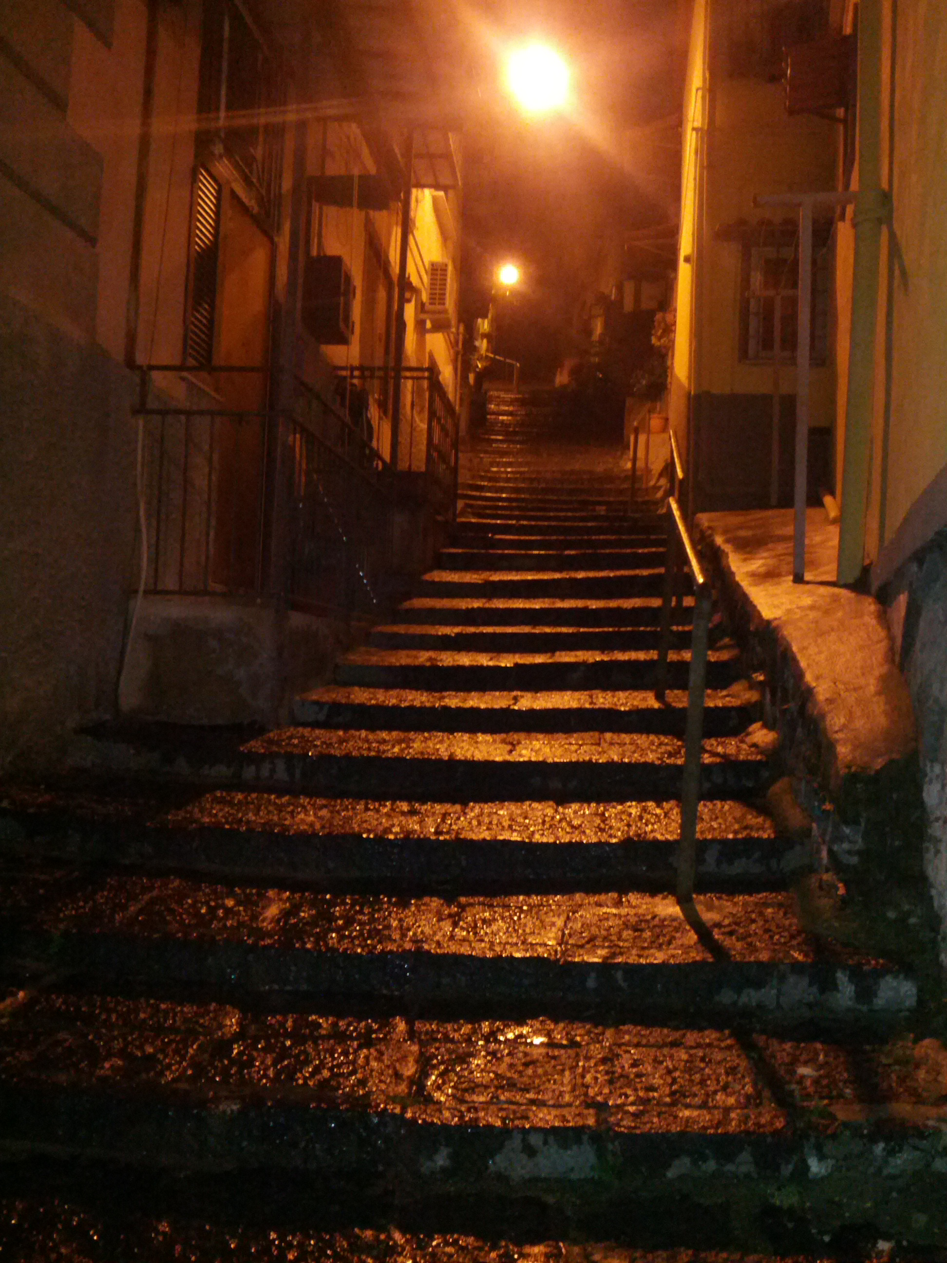 Picture of the characterstic Petraio steps